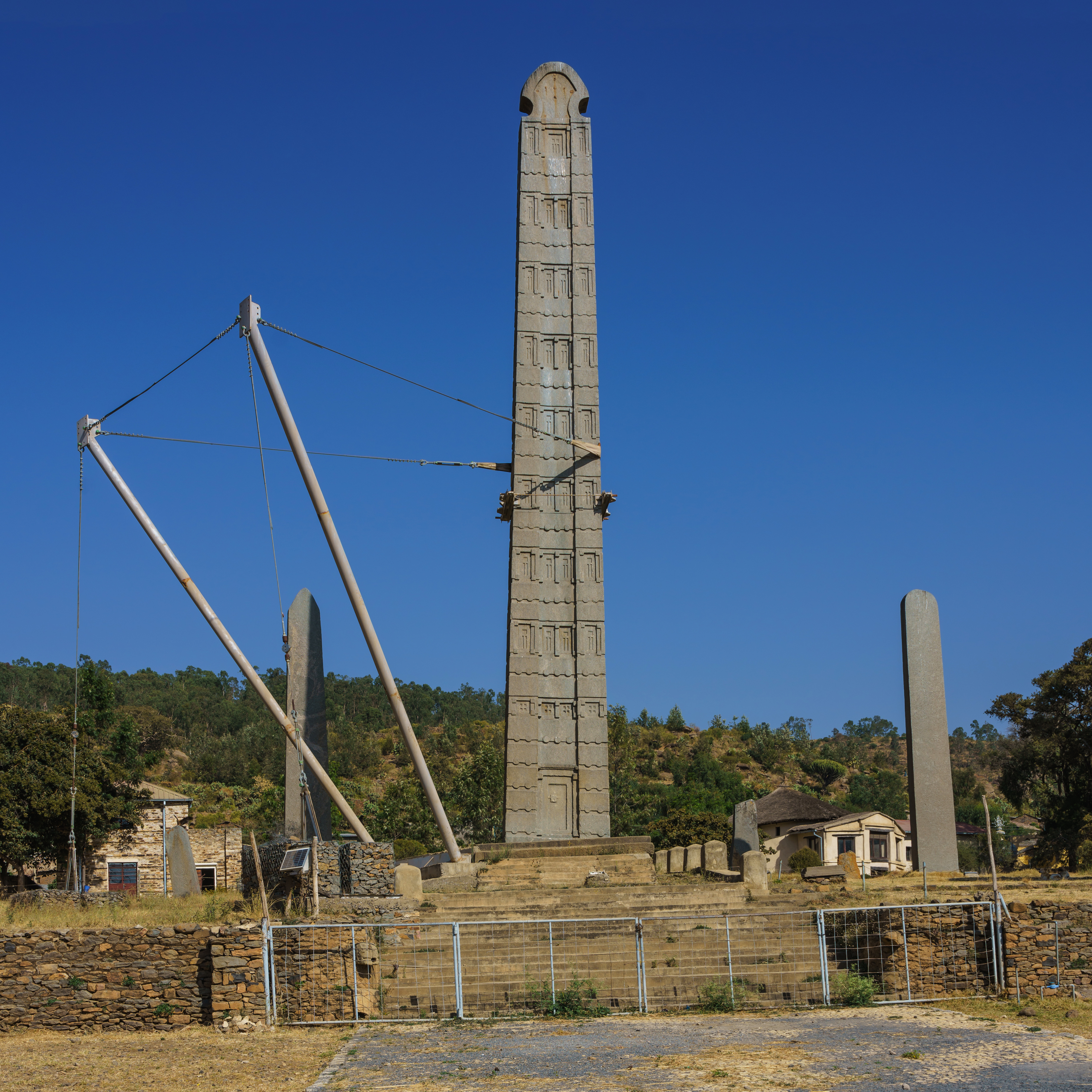 Northern Stelae Park in Aksum, Tigray Region, Ethiopia